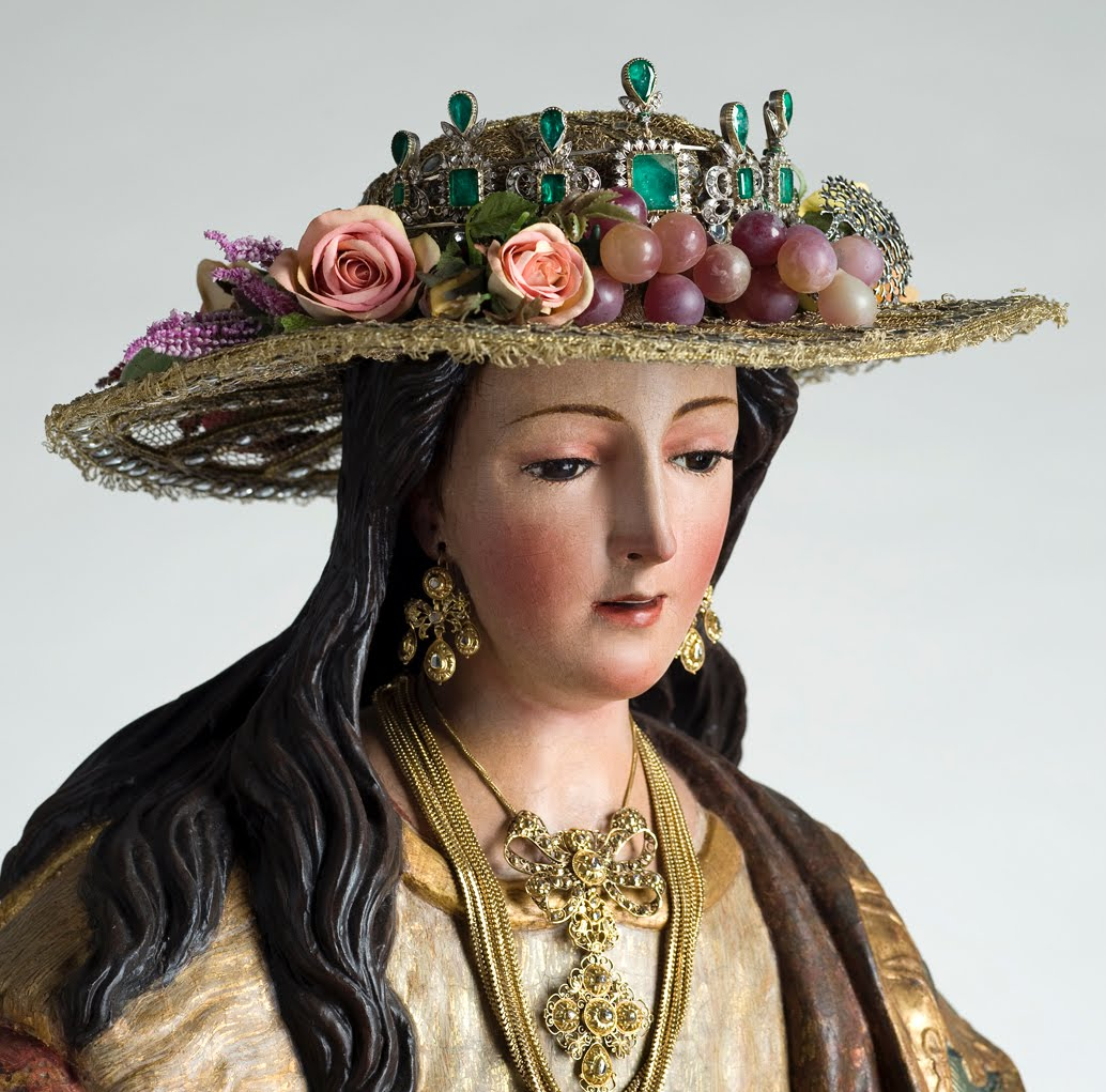 Divina Pastora